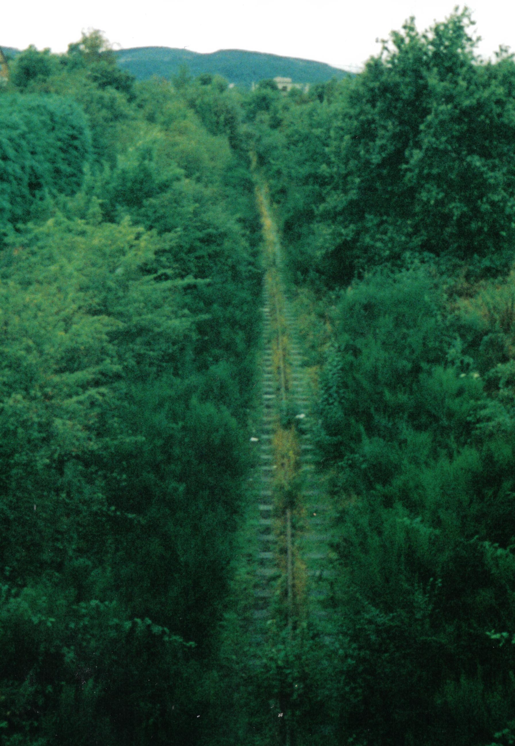 The track on the old Dumfries to Stranraer railway just outside of Dumfries in 2005. Scottish Borders. Rosser 10:57, 30 April 2007 (UTC)